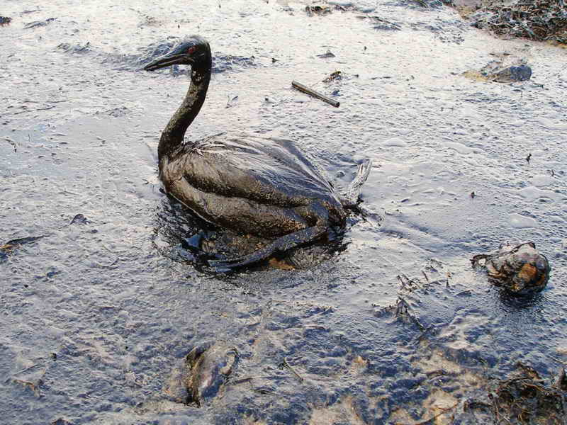 Oil spill pollution and its visible effect on local wildlife